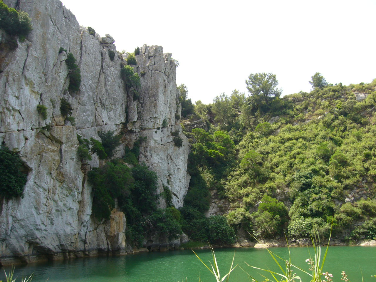 Saint-Pierre-la-Mer, natural monument, l'oeil doux